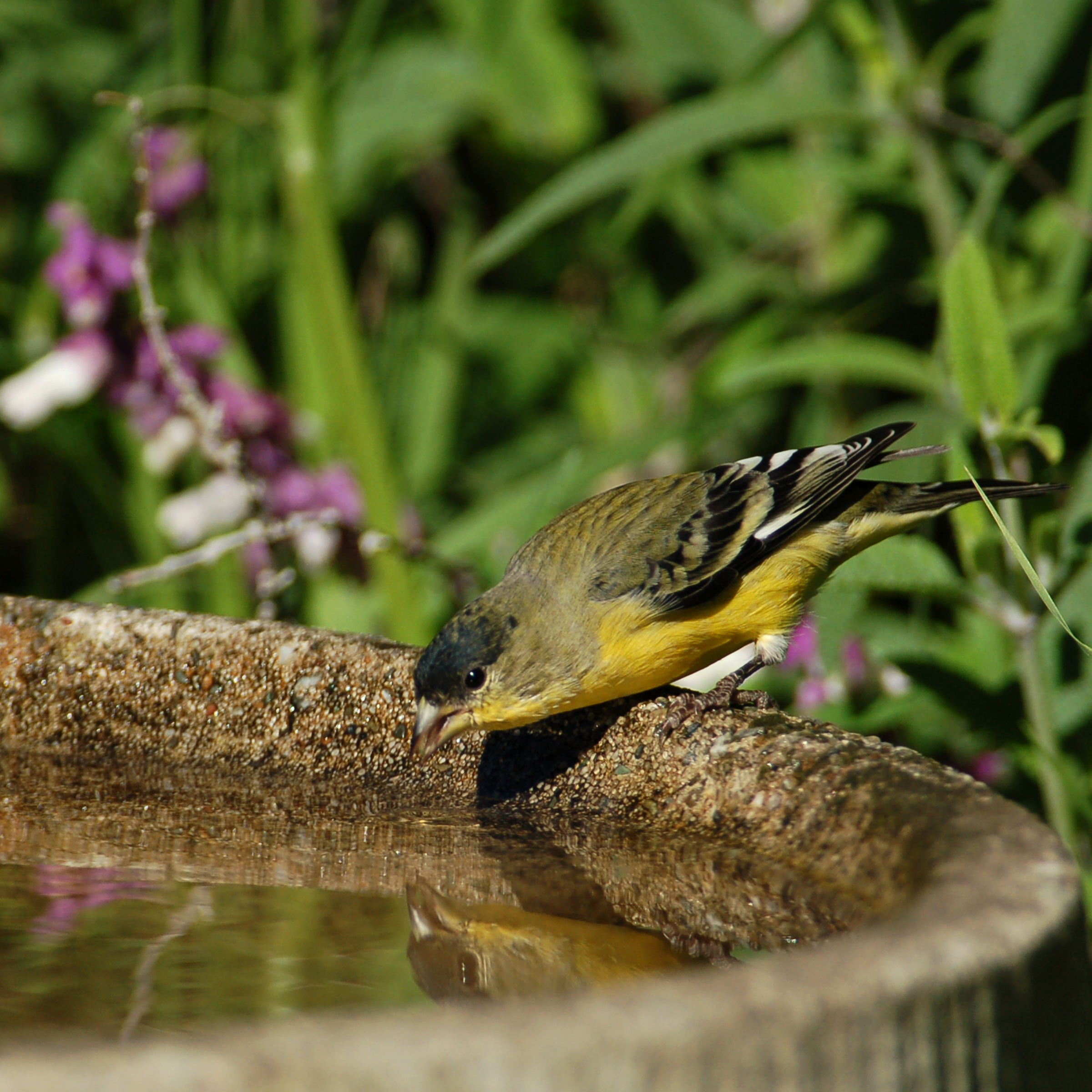 Male Lesser Goldfinch Carduelis psaltria hesperophila, San Jose, CaliforniaMale lesser goldfinch (Carduelis psaltria)